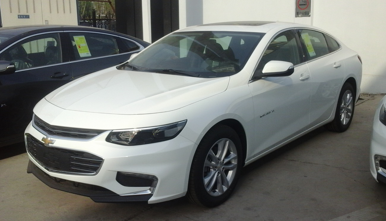 Chevrolet Malibu XL photographed in Beijing, China.